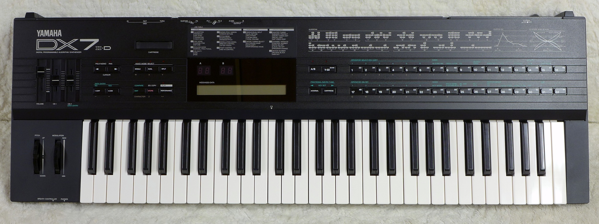 Brochure view